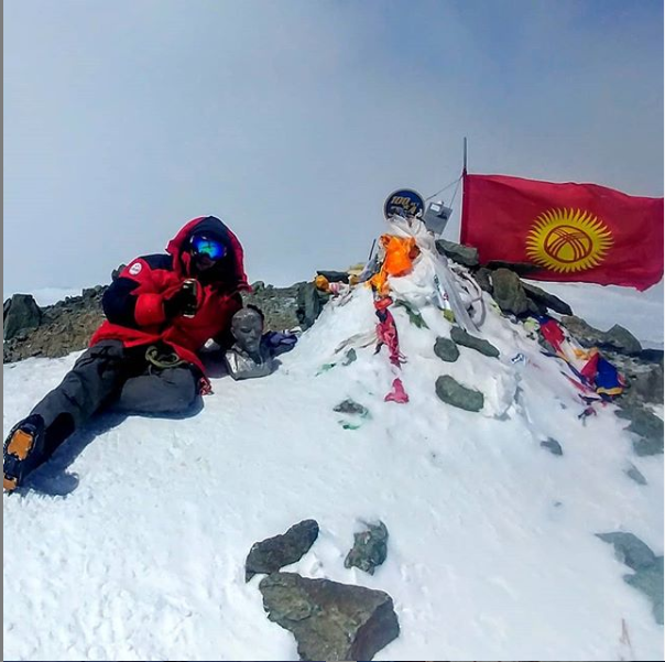 This photo is of me, beer in hand, on the summit of Lenin Peak on the last day of July 2019. I am posing with a heavy cast iron bust of Vladimir Lenin's head, which has been atop the summit since the Soviet era.